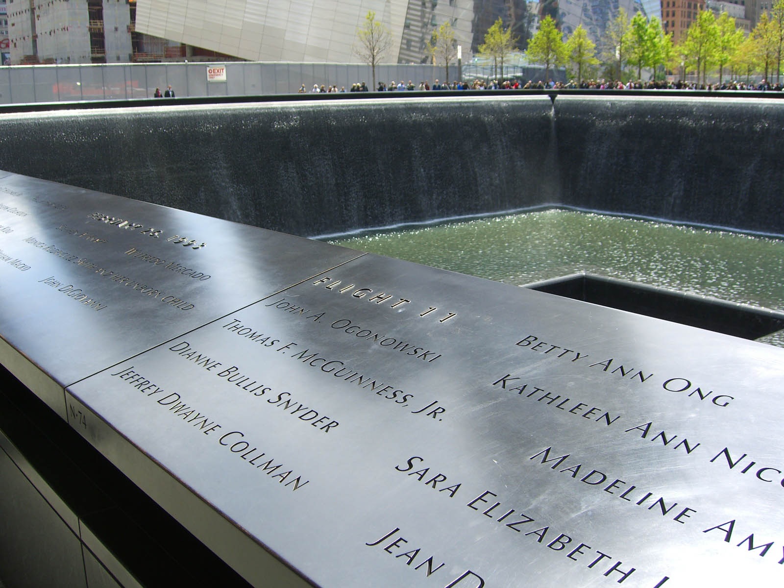 The names of passengers and crew of American Airlines Flight 11 are seen on Panel N-74 of the North Pool of the National September 11 Memorial in Manhattan, as seen on April 28, 2012. This photo was created by Luigi Novi. If you have any questions, you can contact me by sending me an email or leaving a note at the bottom of my talk page.